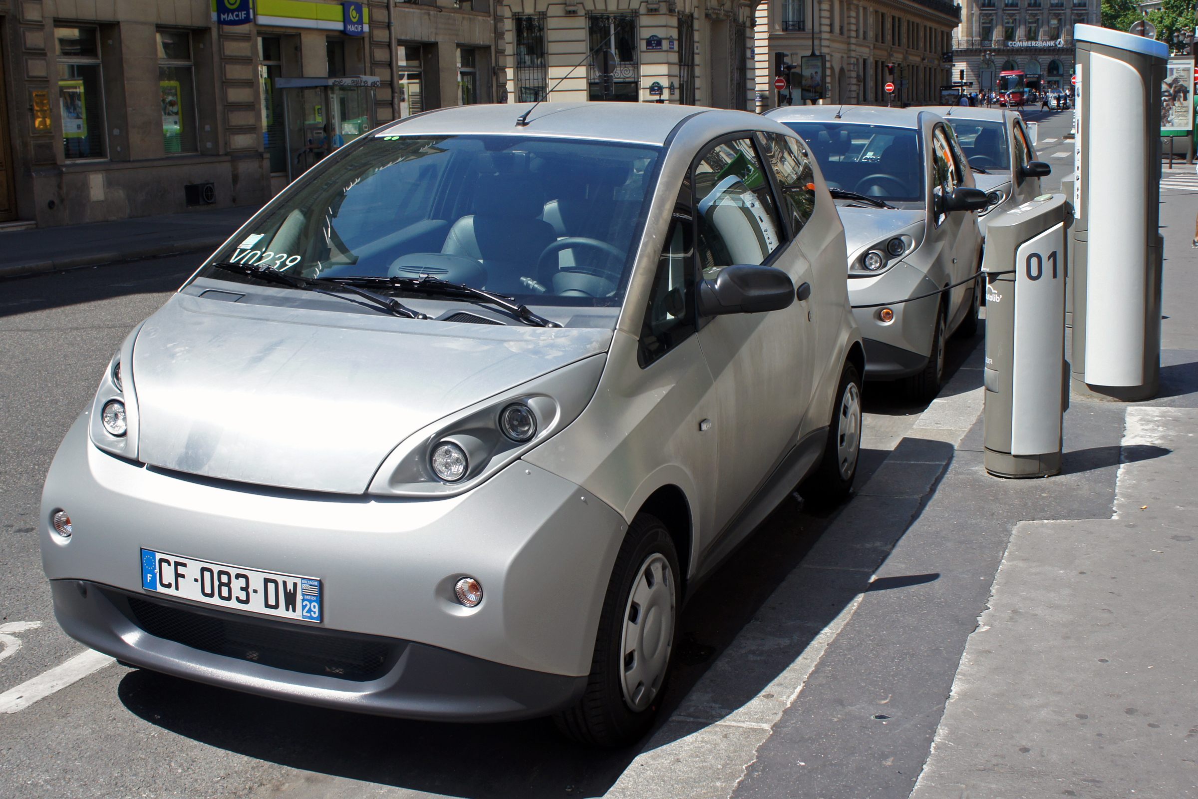 Bolloré Bluecars recharging at an Autolib' carsharing service kiosk on Rue du Quatre Septembre in Paris.